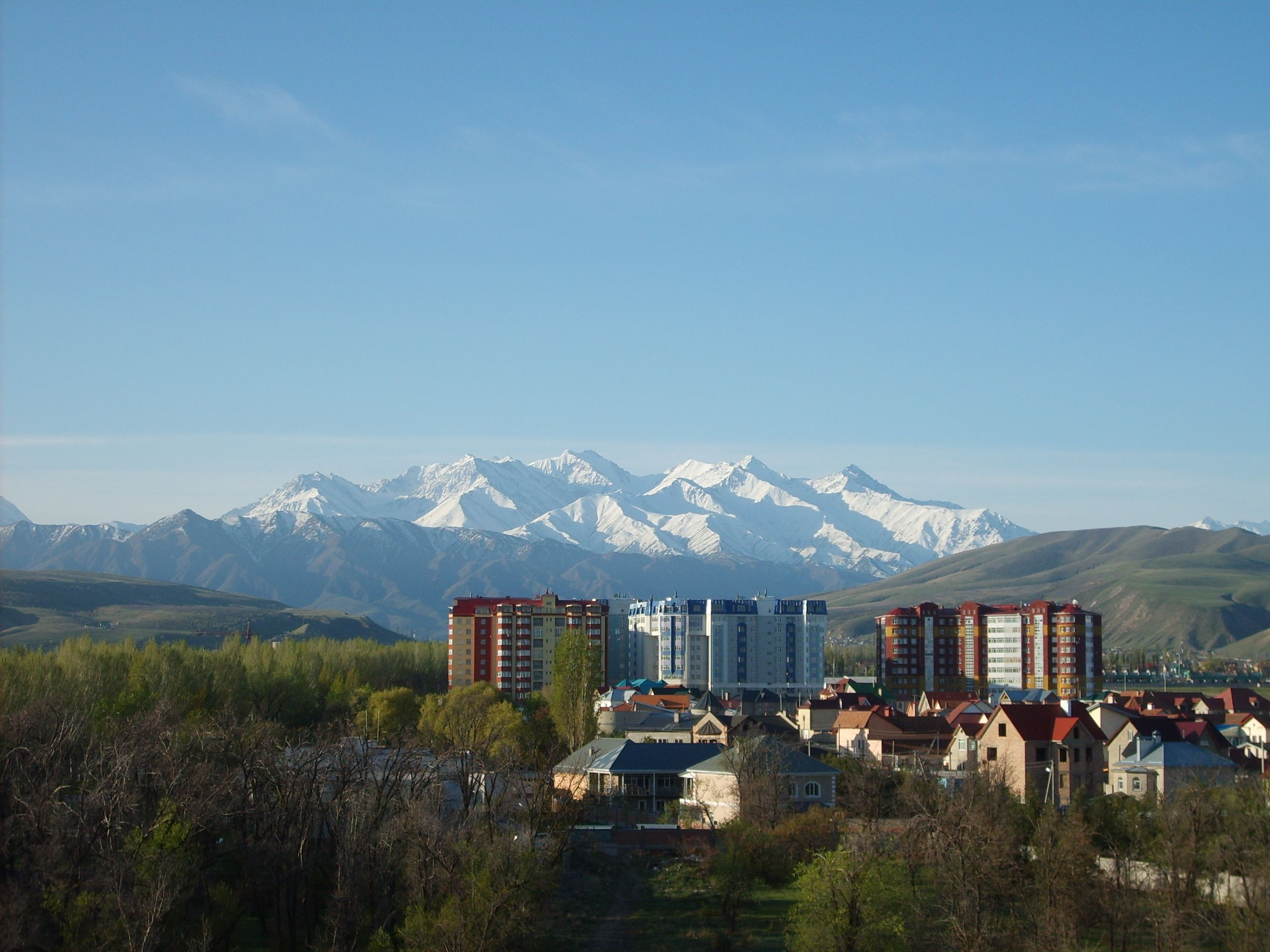 View over the Kyrgyz capital Bishkek towards the northern part of the Kyrgyz Ala-Too Range in the north Tian Shan